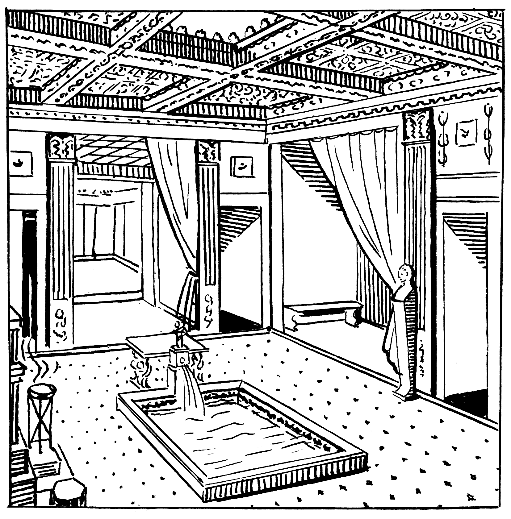 an illustration of an atrium